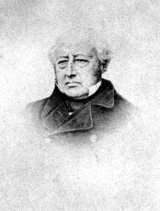 Photograph of an engraving of Edward Bury, engineer